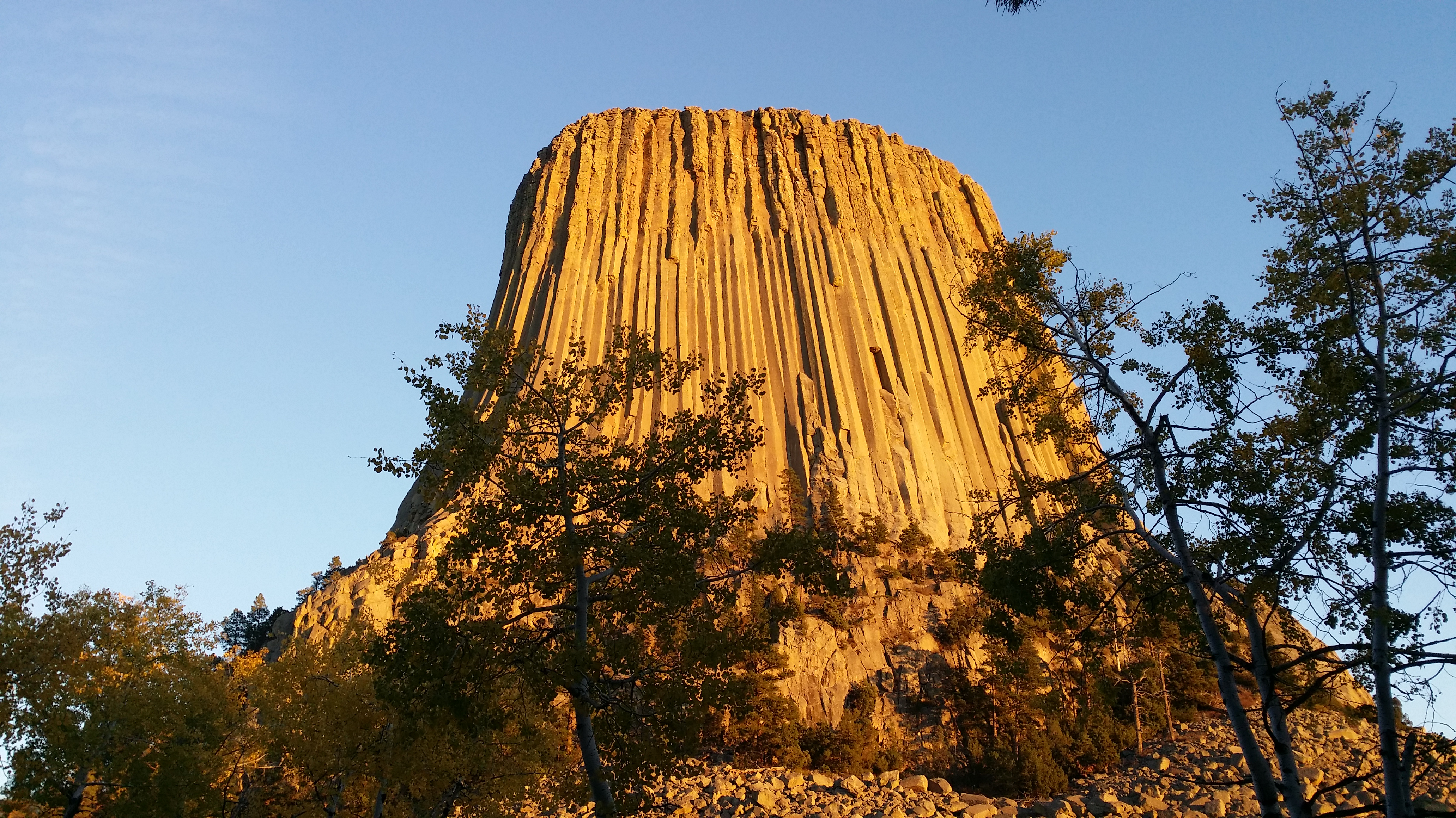 Crook County, WY, USA